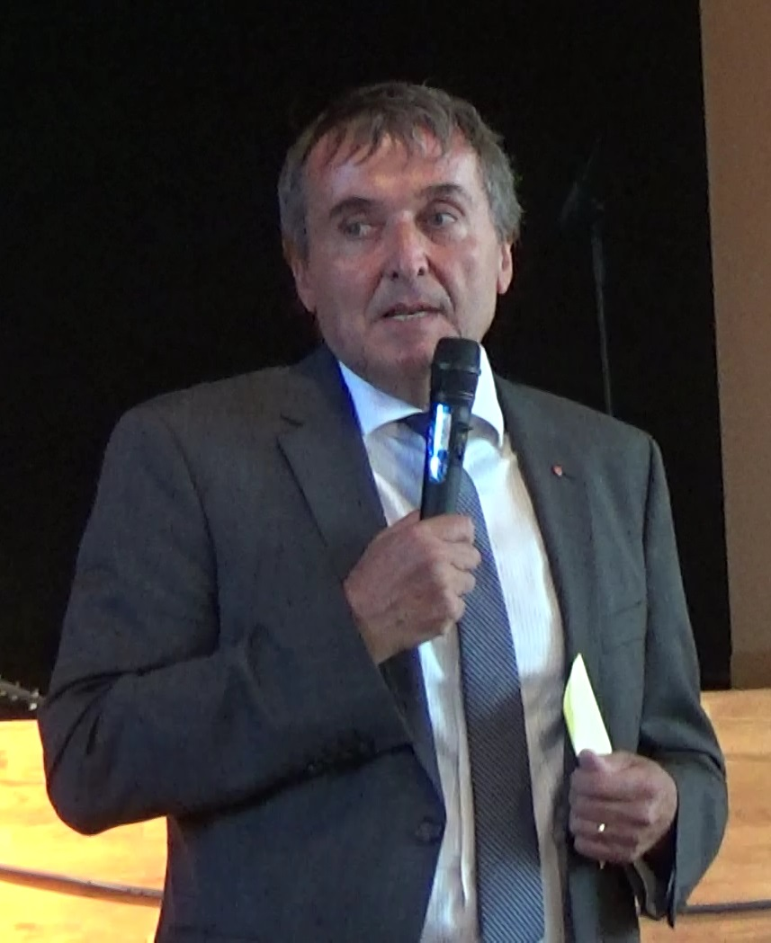 Theophil Gallo, head (and leader of the administration) of the Saarpfalz-Kreis since June 2017, a rural district in Germany (located in Saarland)